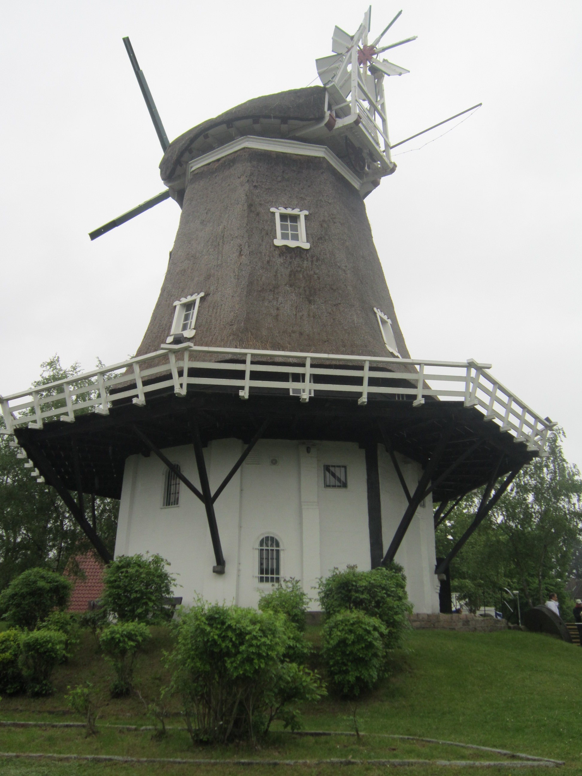 Windmill in Achim (Landkreis Verden)